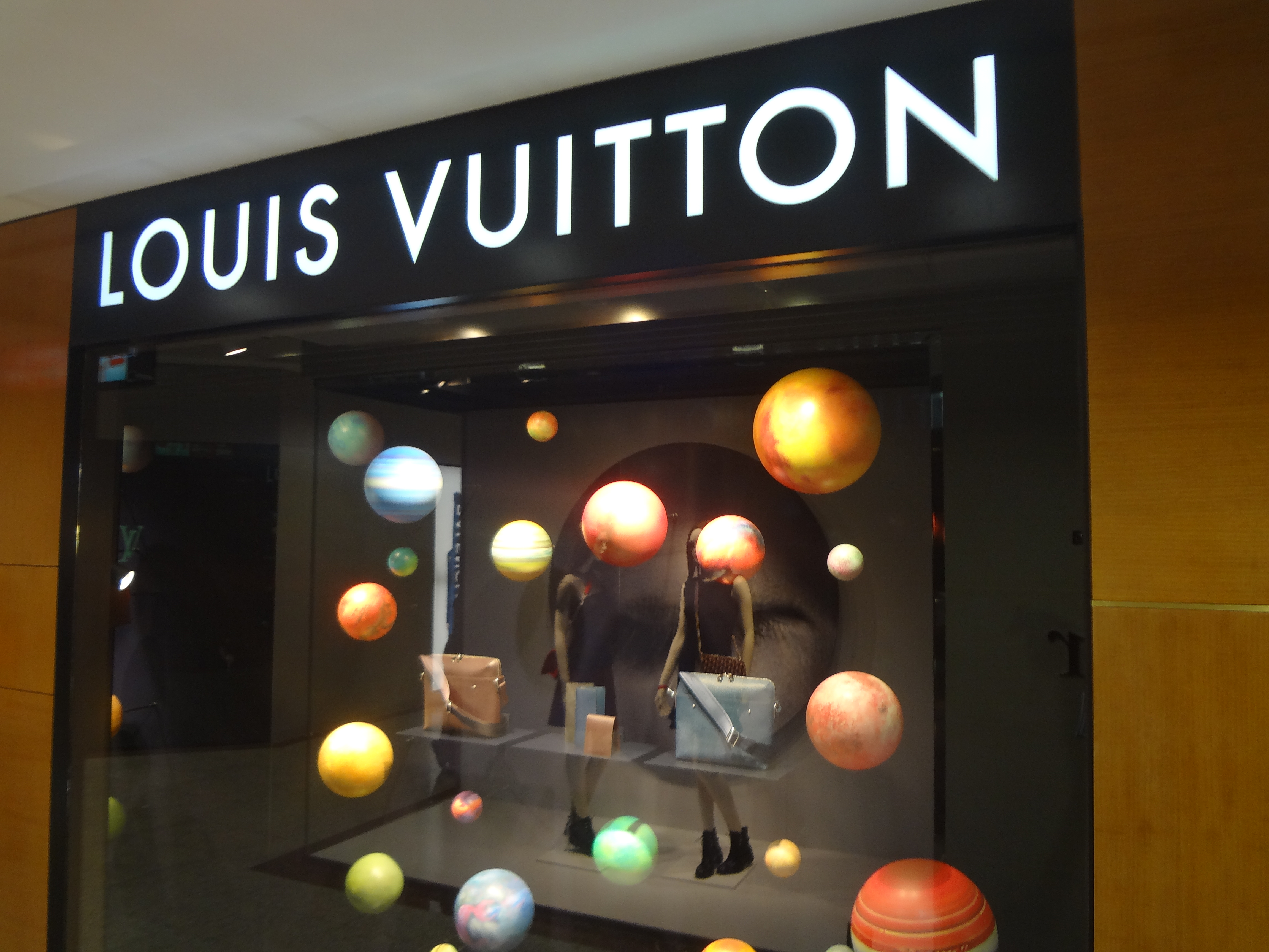 Louis Vuitton or shortened to LV, is a French fashion house founded in 1854 by Louis Vuitton, photography by david adam kess, madrid 2016